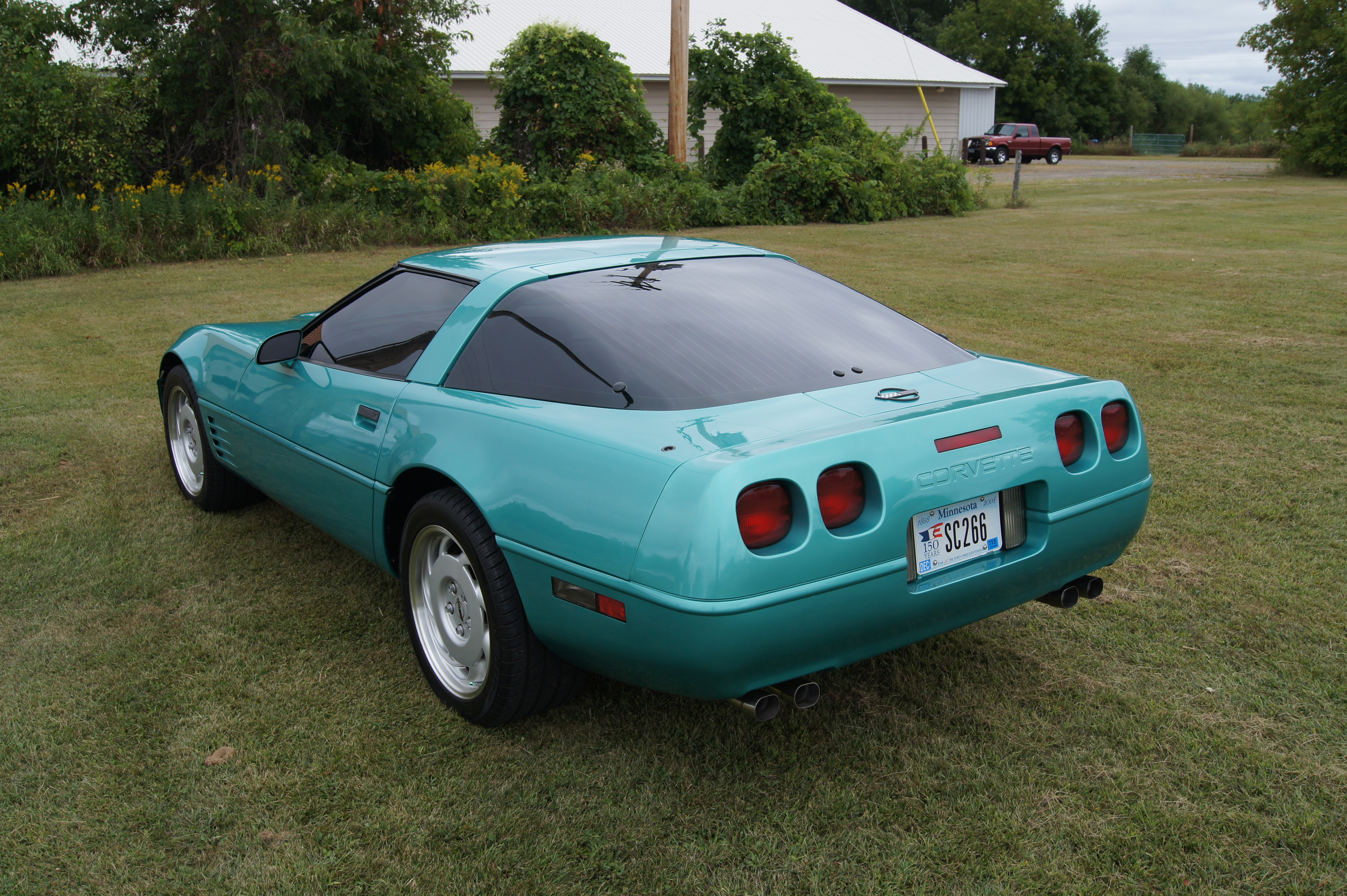 North Star Chapter Studebaker Drivers Club 13th Annual Labor Day Car Show September 2, 2013 Blacksmith Lounge Hugo, MN